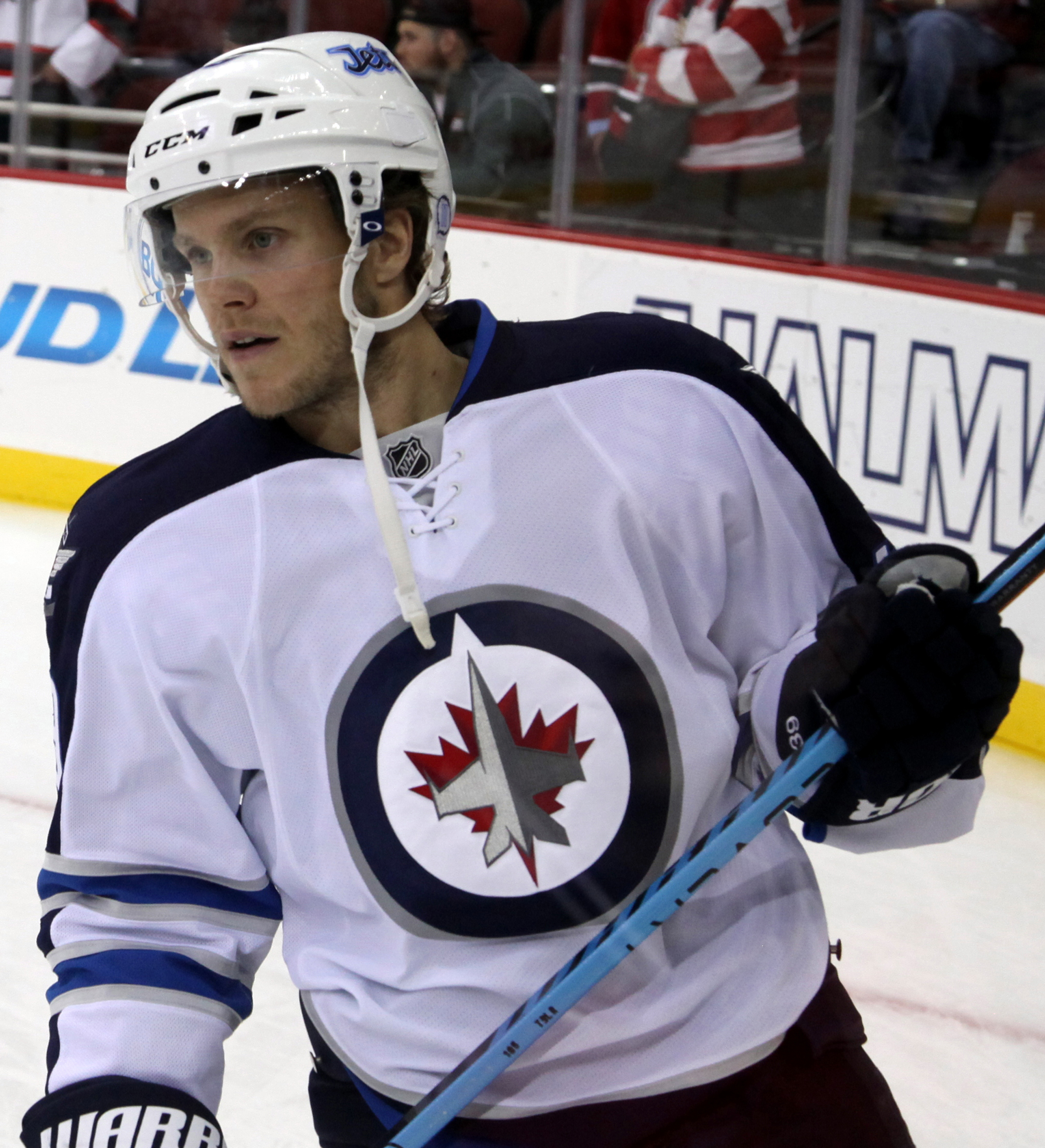 Enstrom in October 2014.